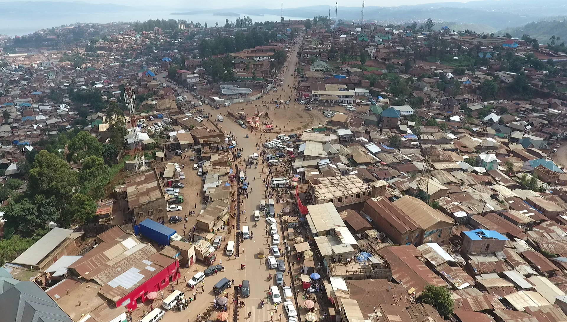 This is an image of "African people at work" from Democratic Republic of the Congo